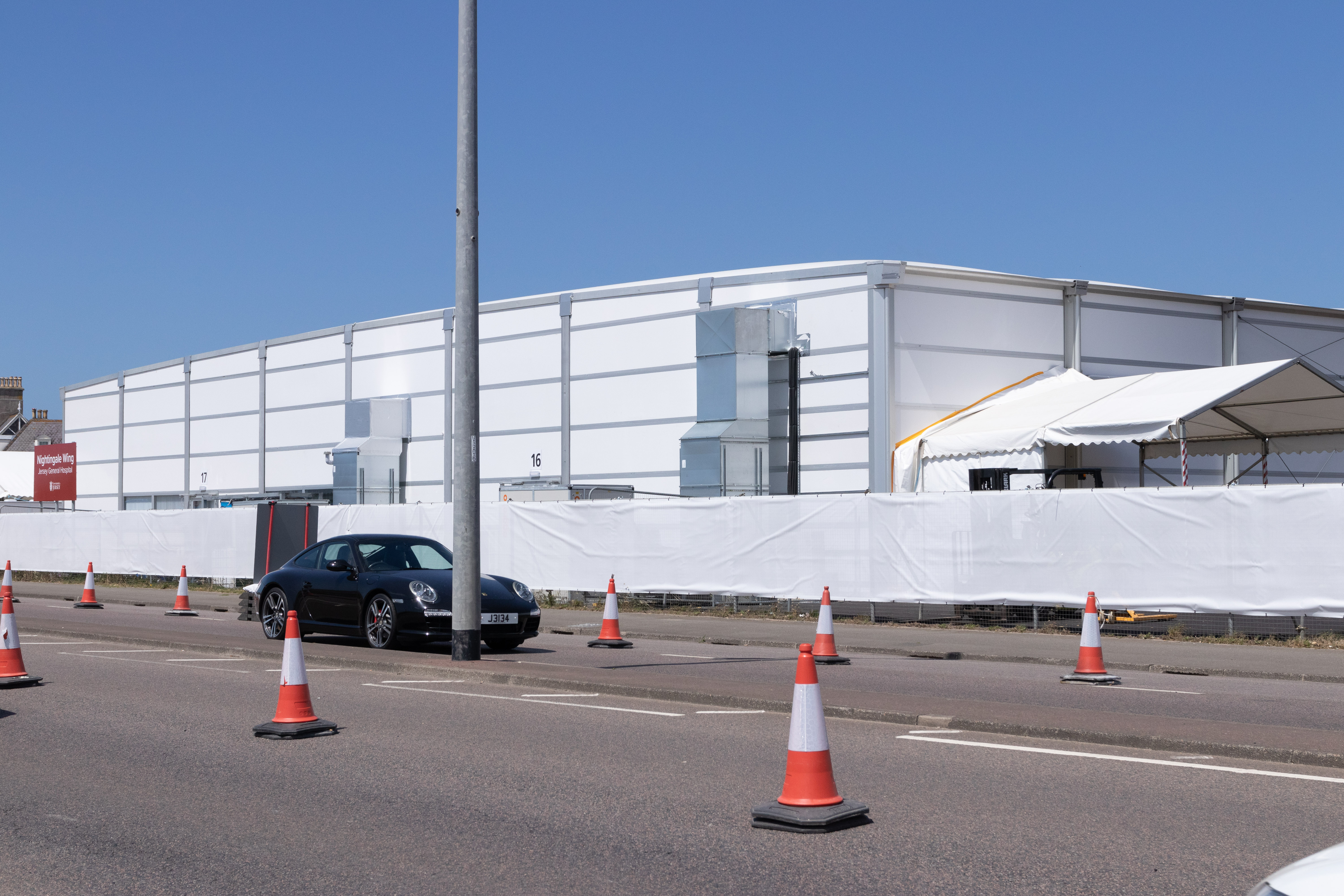 Nightingale Wing Jersey General Hospital viewed from Victoria Avenue.